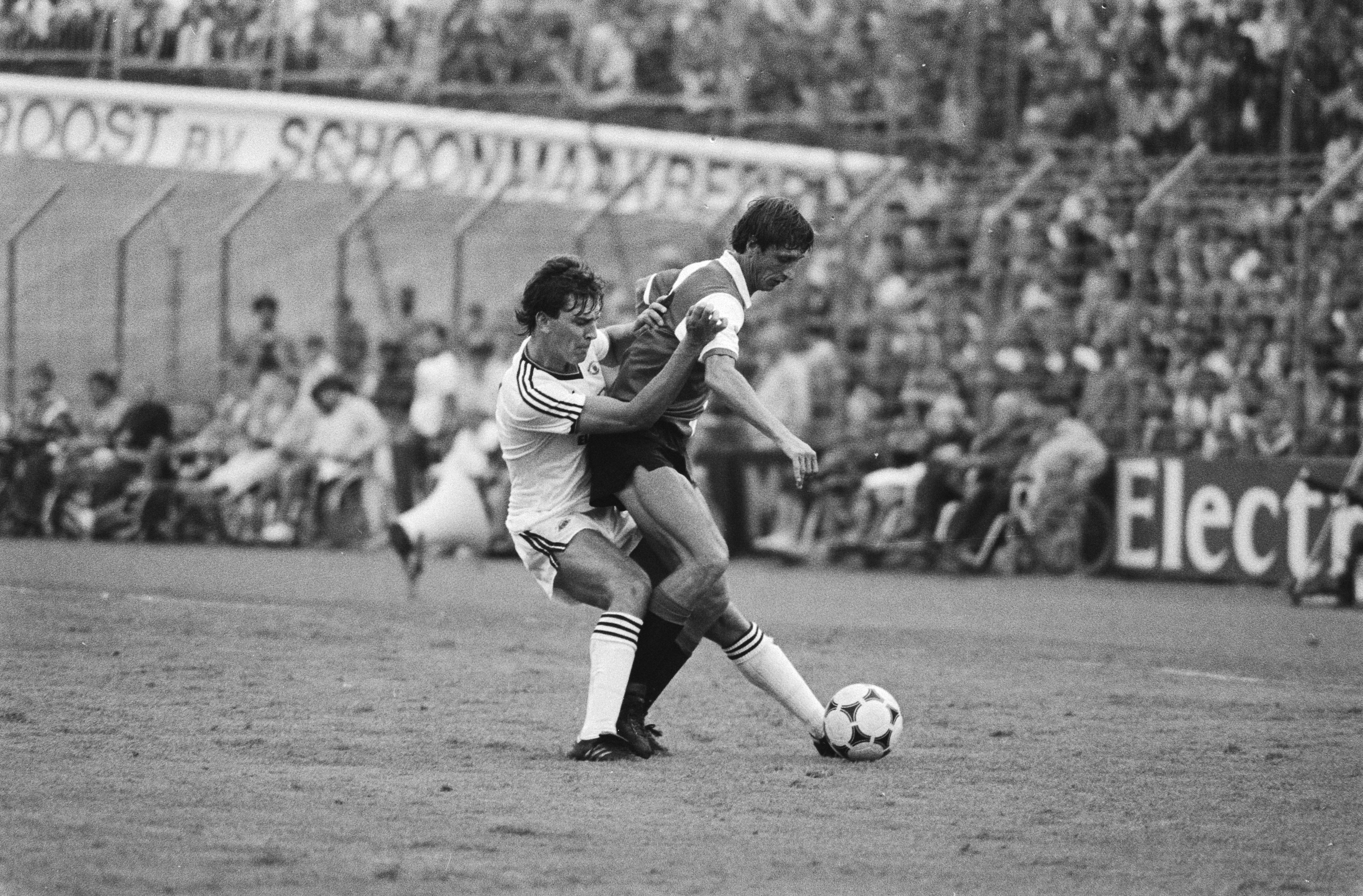 Tournament Amsterdam 1983. Steve Coppell (Manchester United) & Johan Cruyff (Feyenoord). 12 August 1983. Most probably wrong information: Coppell wasn't playing that day. More likely Bryan Robson.